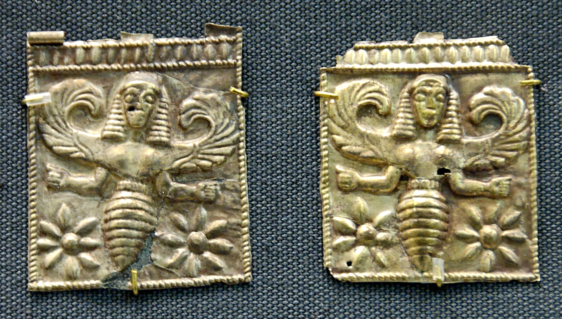 Bee-goddess, perhaps associated with Artemis above female heads. Gold plaques, 7th century BC.